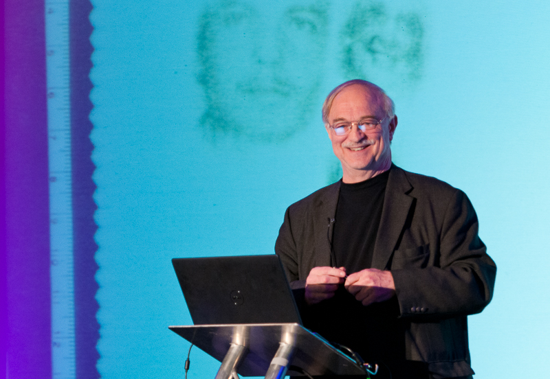 Joe Nickell gives a great talk on being a paranormal investigator at QED Con 2012.